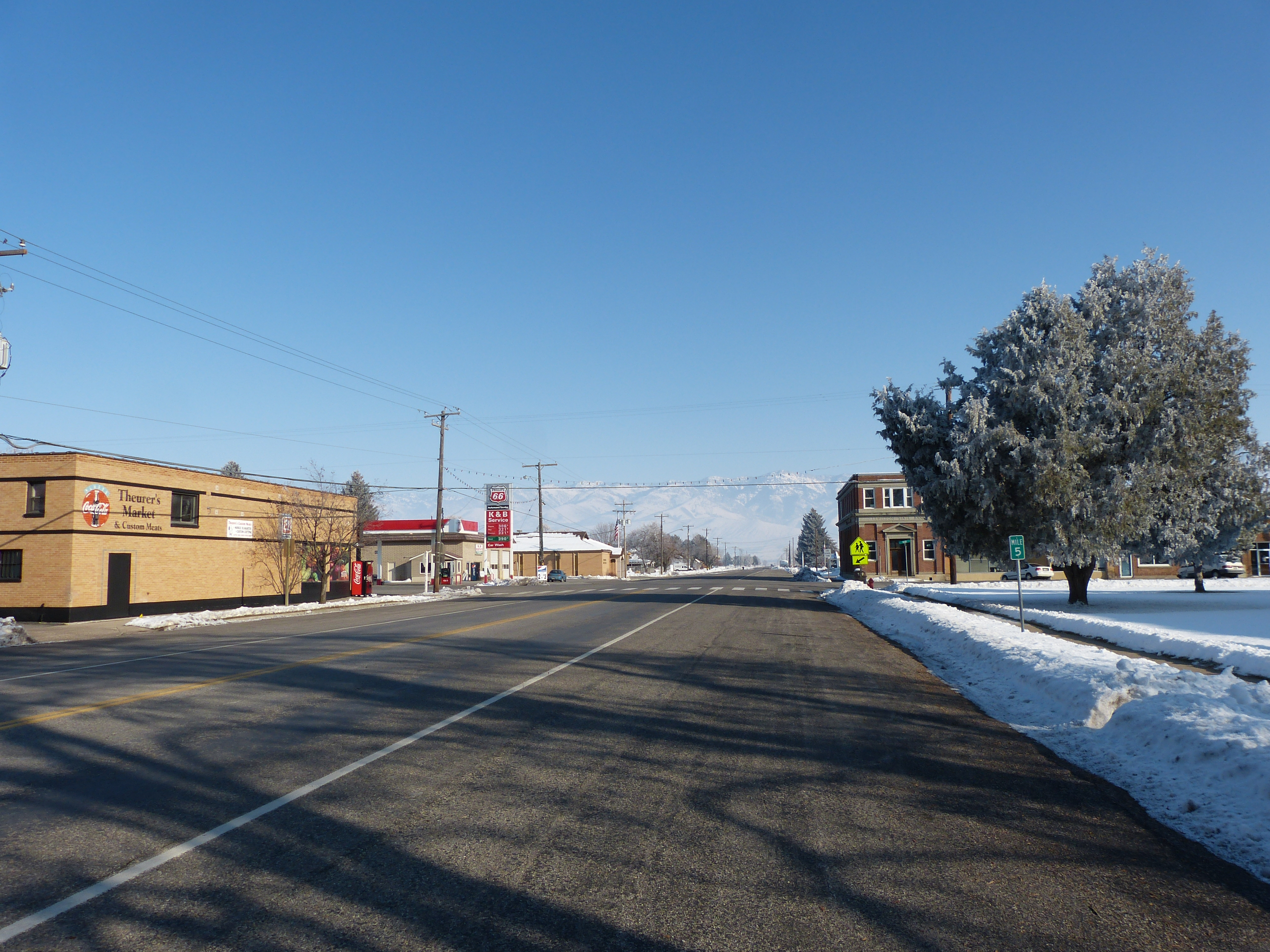 In the city center of Lewiston, looking east along Utah State Route 61.